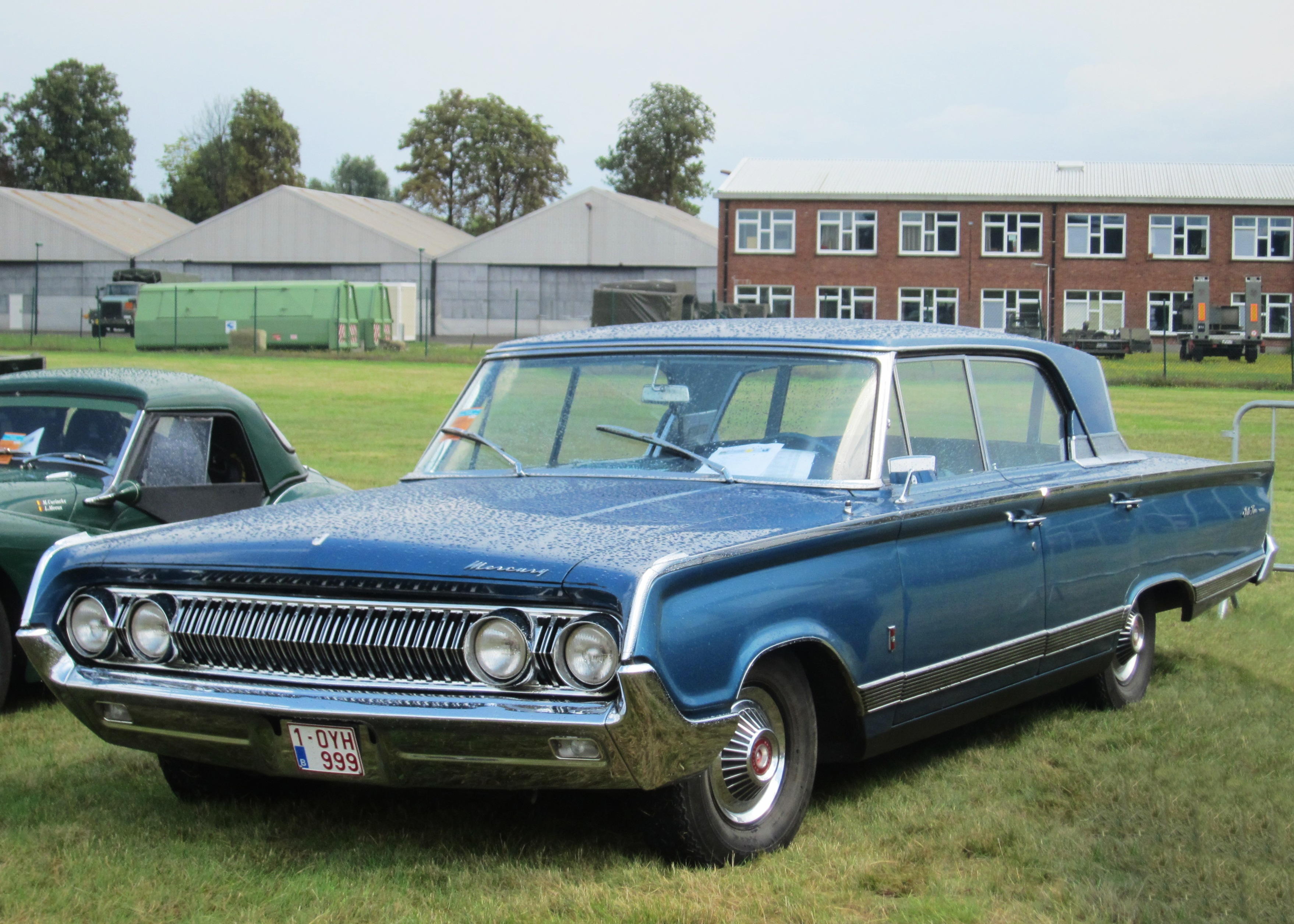 Mercury Park Lane (ca 1964)